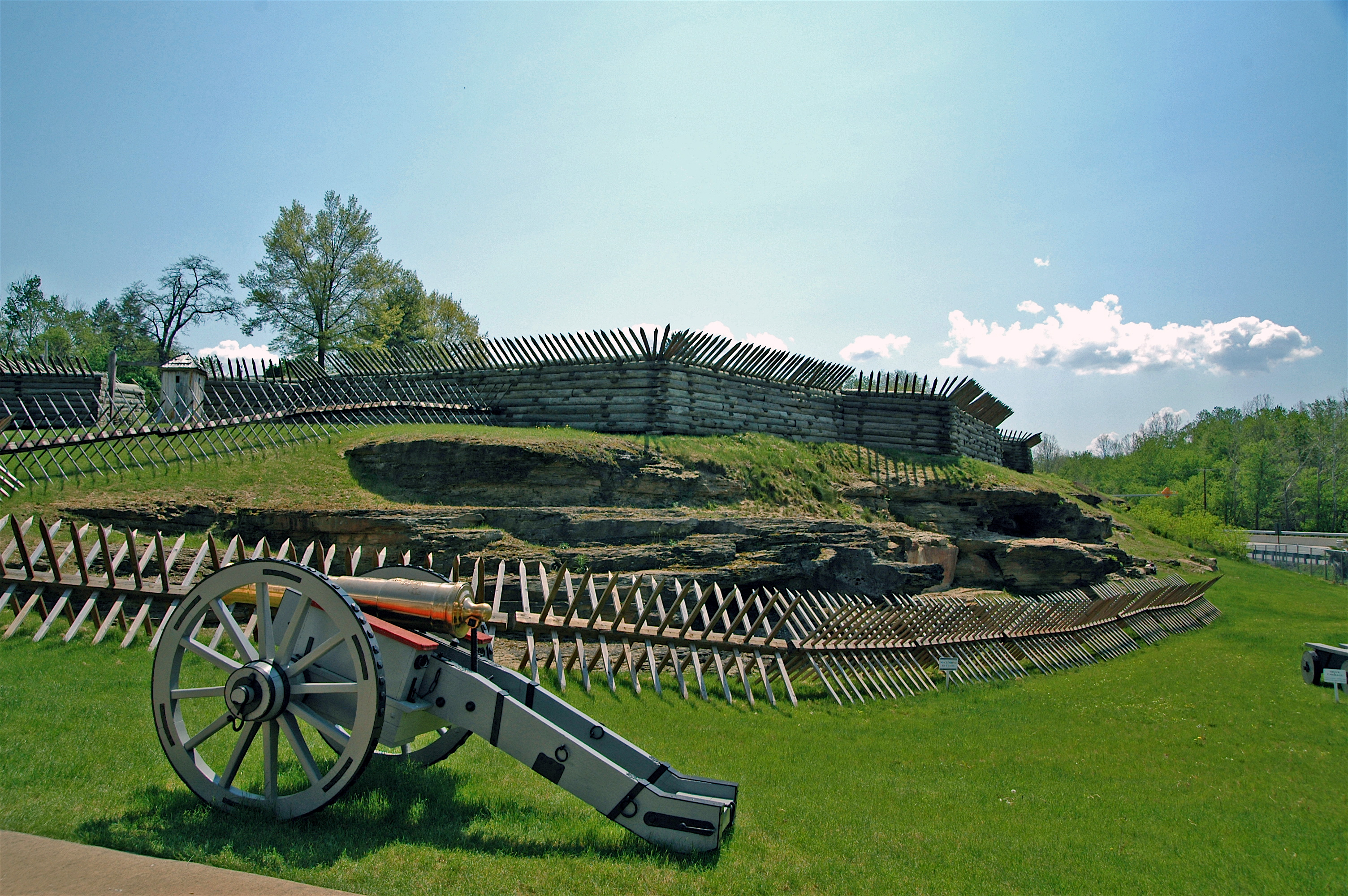 description: Fort Ligonier. photographer: Jeff Kubina photographer_url: [1] flickr_url: [2] taken:May 12, 2007